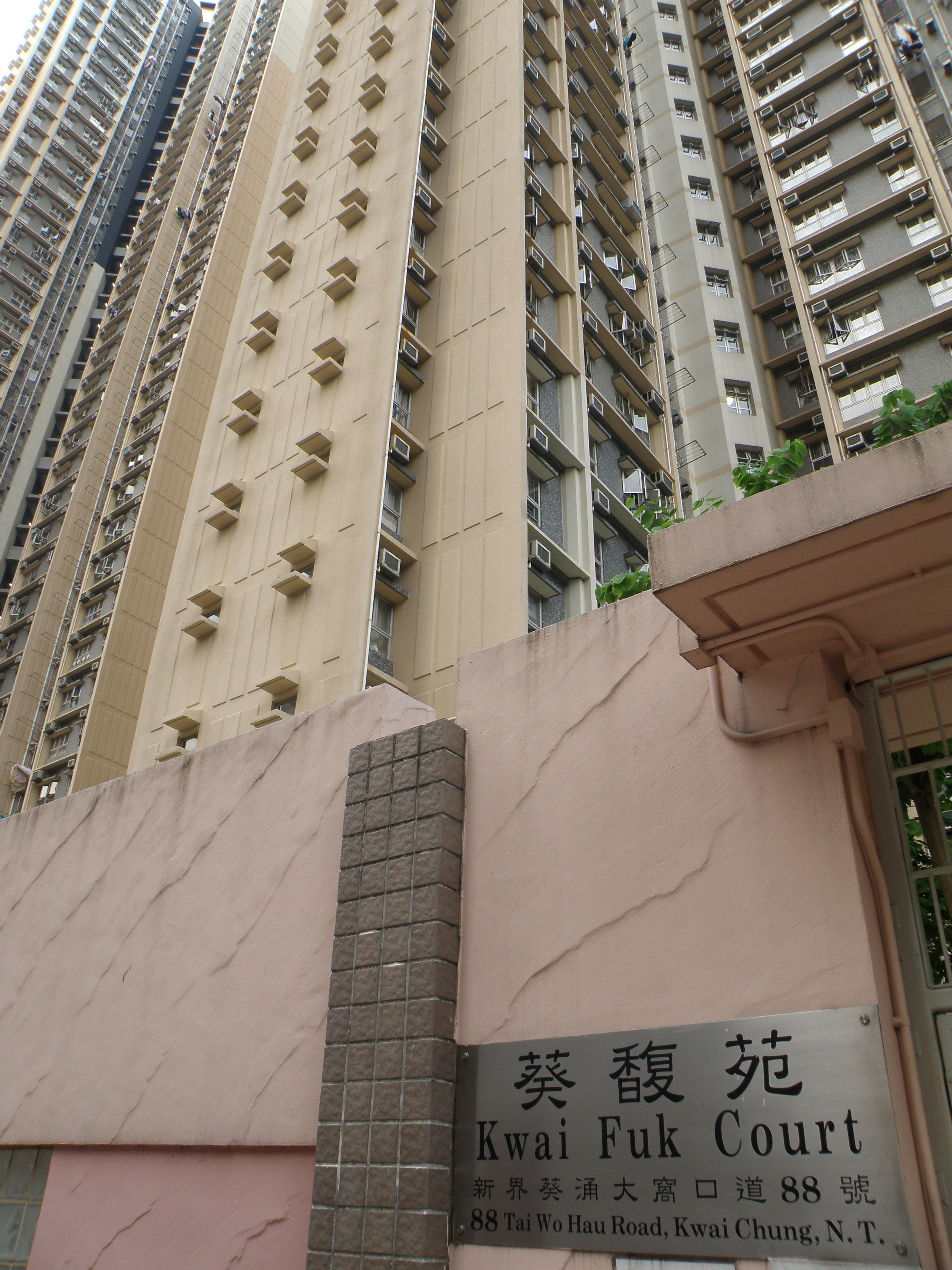 Kwai Fuk Court, a residence in Kwai Chung, Hong Kong.